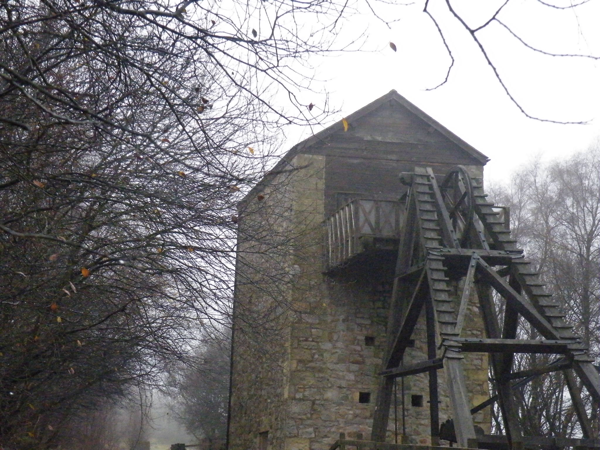 Meadow Shaft engine house, Minera lead mines